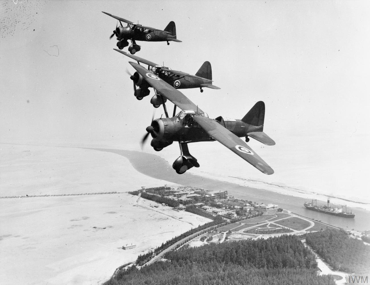 Aircraft of the Royal Air Force 1939-1945- Westland Lysander. Three Lysander Mark Is, L4721, L4728 and L4715, of No. 208 Squadron RAF, based at Heliopolis, Egypt, entering a starboard turn after flying over the Suez Canal.